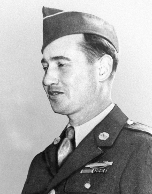 Private First Class William A. Soderman, United States Army, received the Medal of Honor for his actions in World War II.